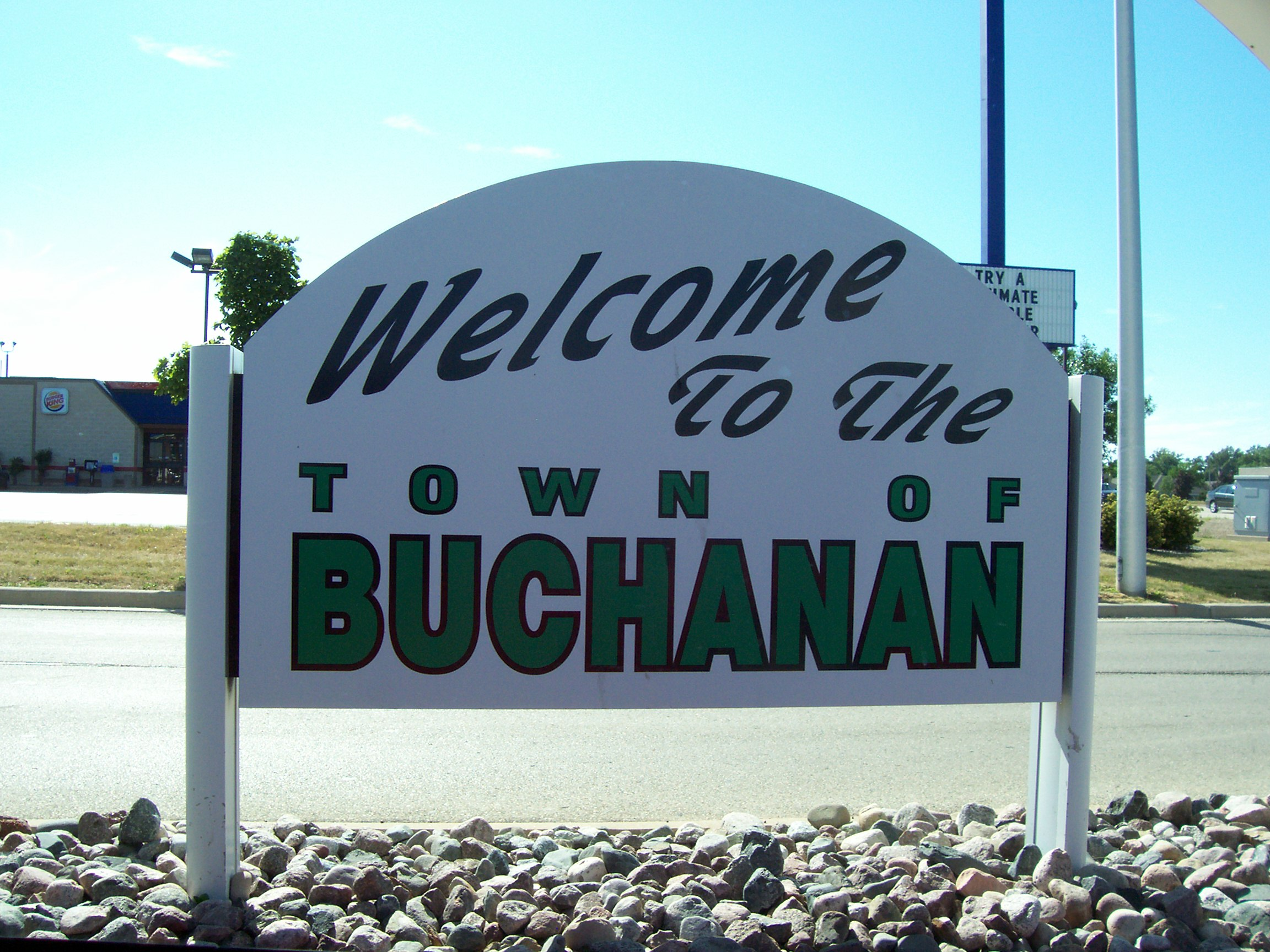 Looking west at a welcome sign for the Town of Buchanan, Wisconsin, USA.